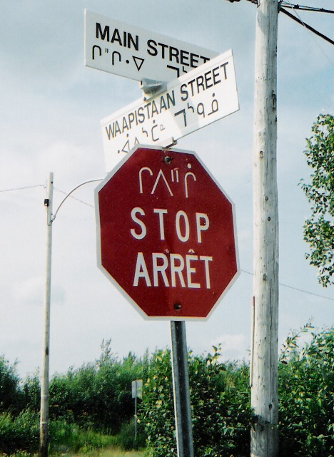 Road signs in Mistissini, showing street names and the "stop" directive in Cree (ᒋᐱᐦᒋ), English ("STOP") and French ("ARRÊT").